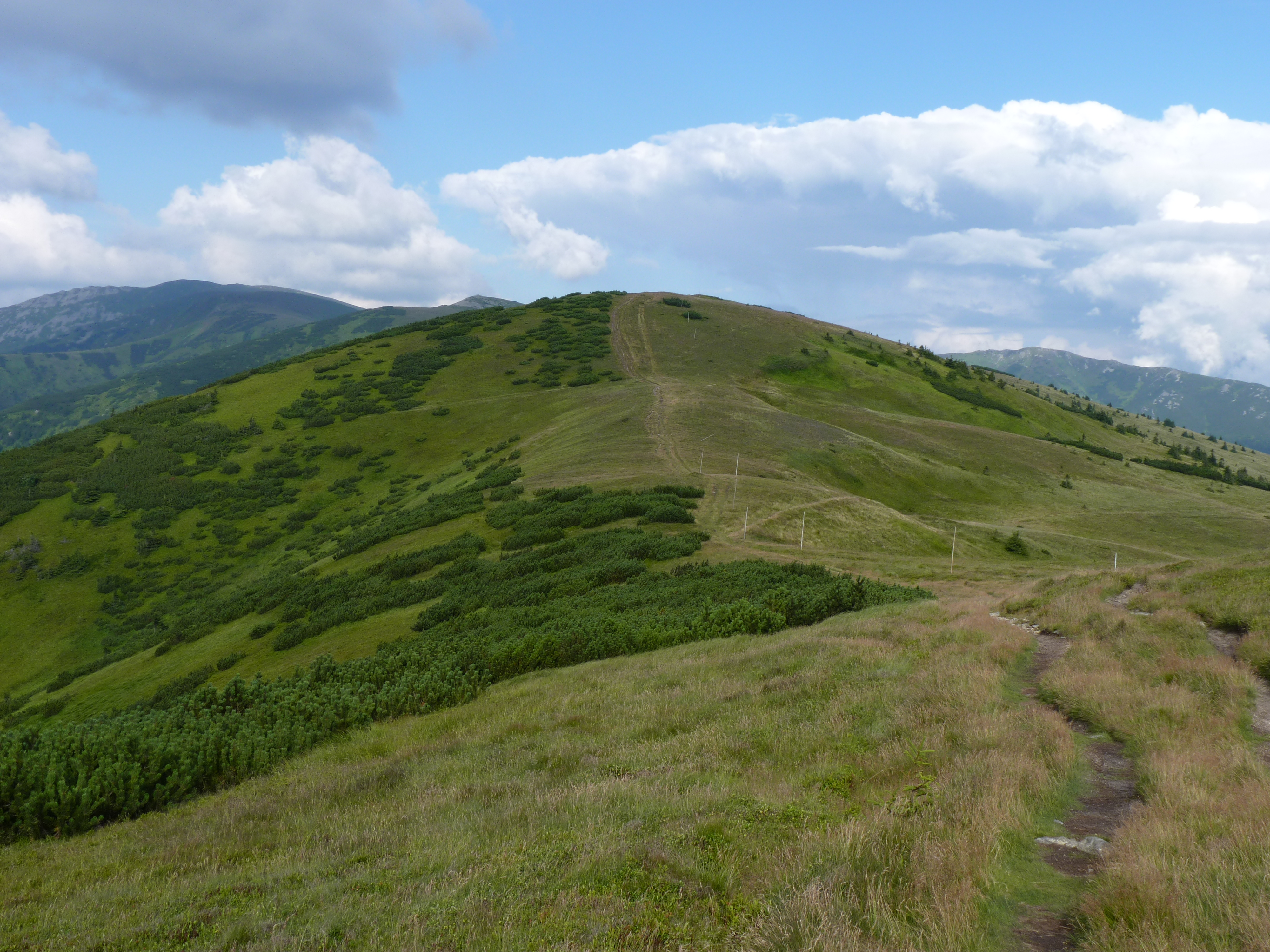 Sedlo Zámostskej hole. Low Tatras, Slovakia